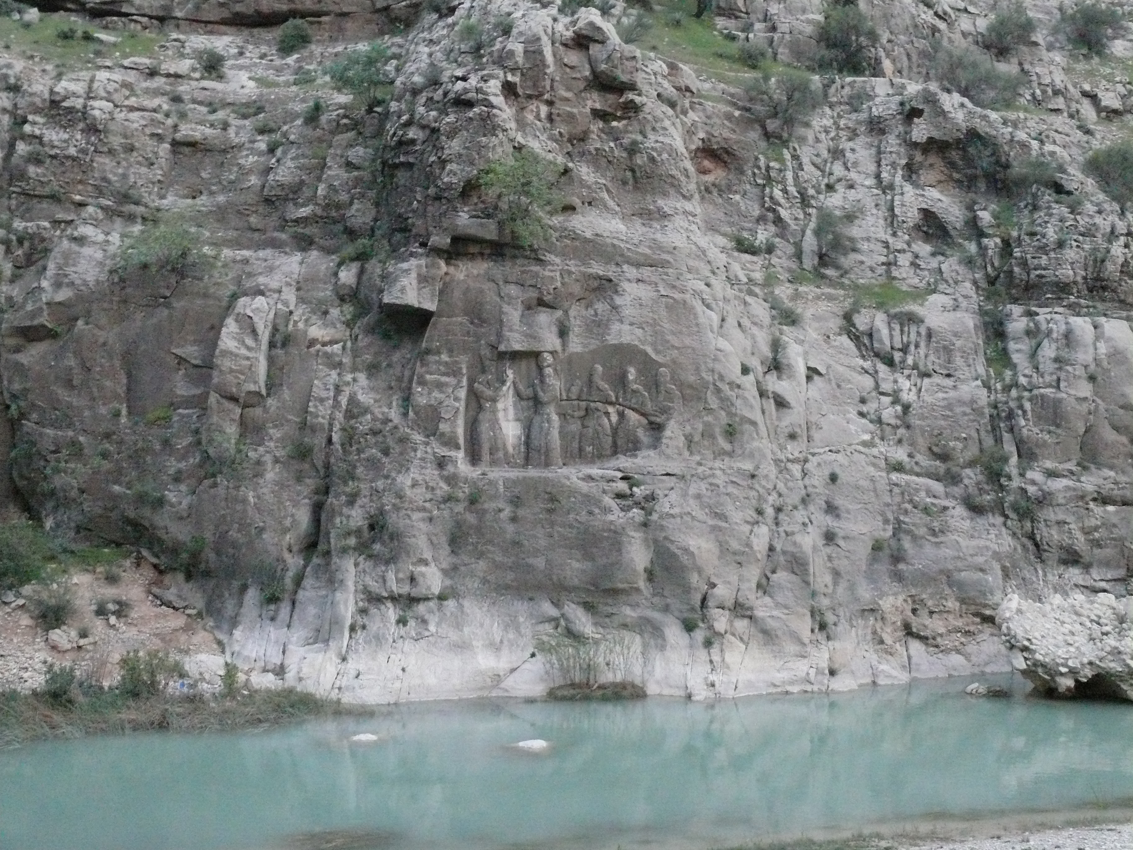 Sassanian first king Ardachir Ist (aka "Ardachir Babakan") investiture relief at Firuzabad, Iran, Province of Fars.